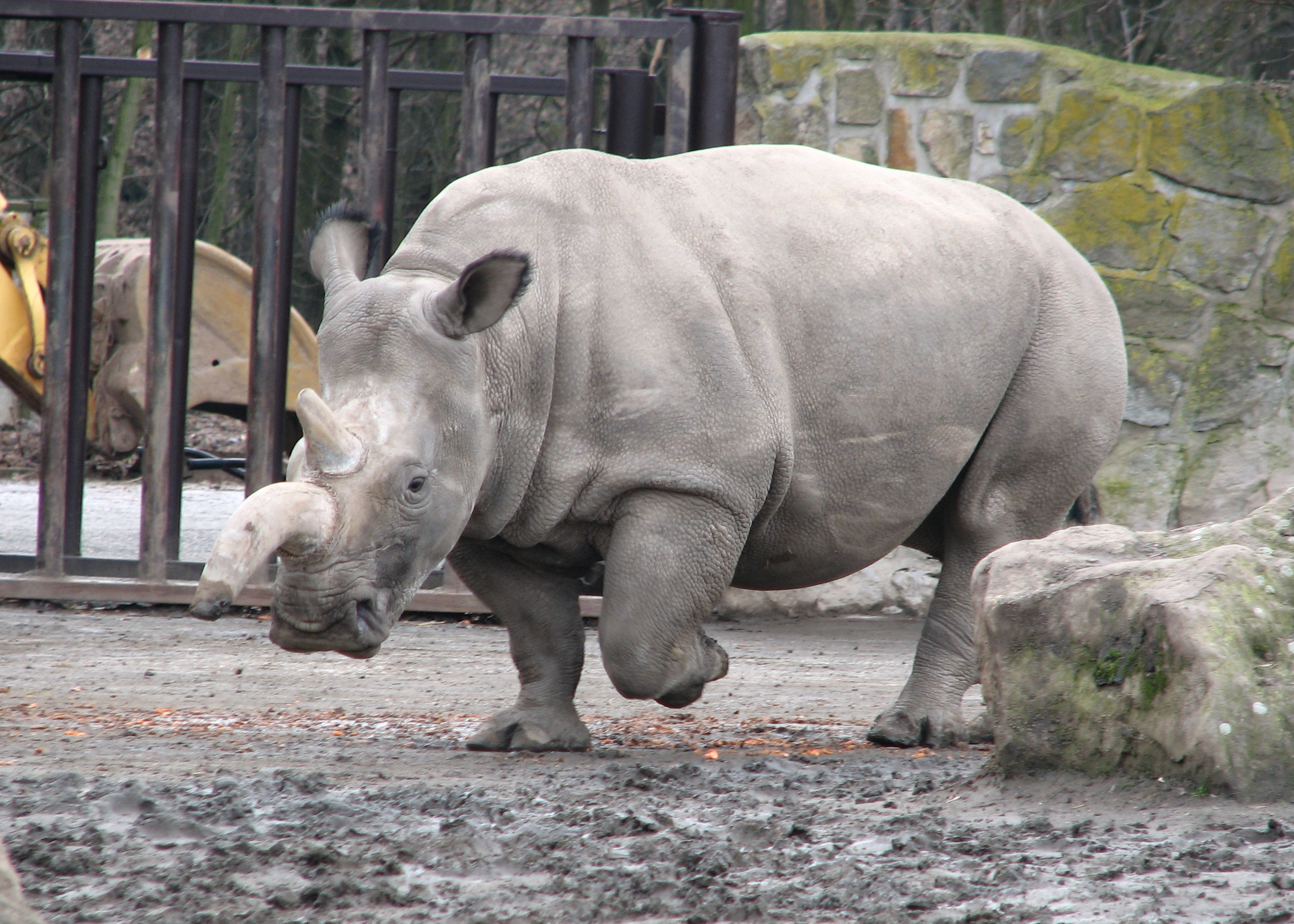 Northern White Rhino, ZOO Dvůr Králové, Czech Republic